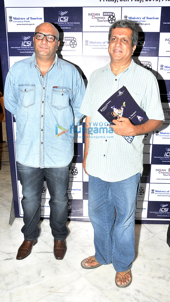 Amit Behl and Darshan Jariwala at the ‘Indian Cinematic Tourism’ event